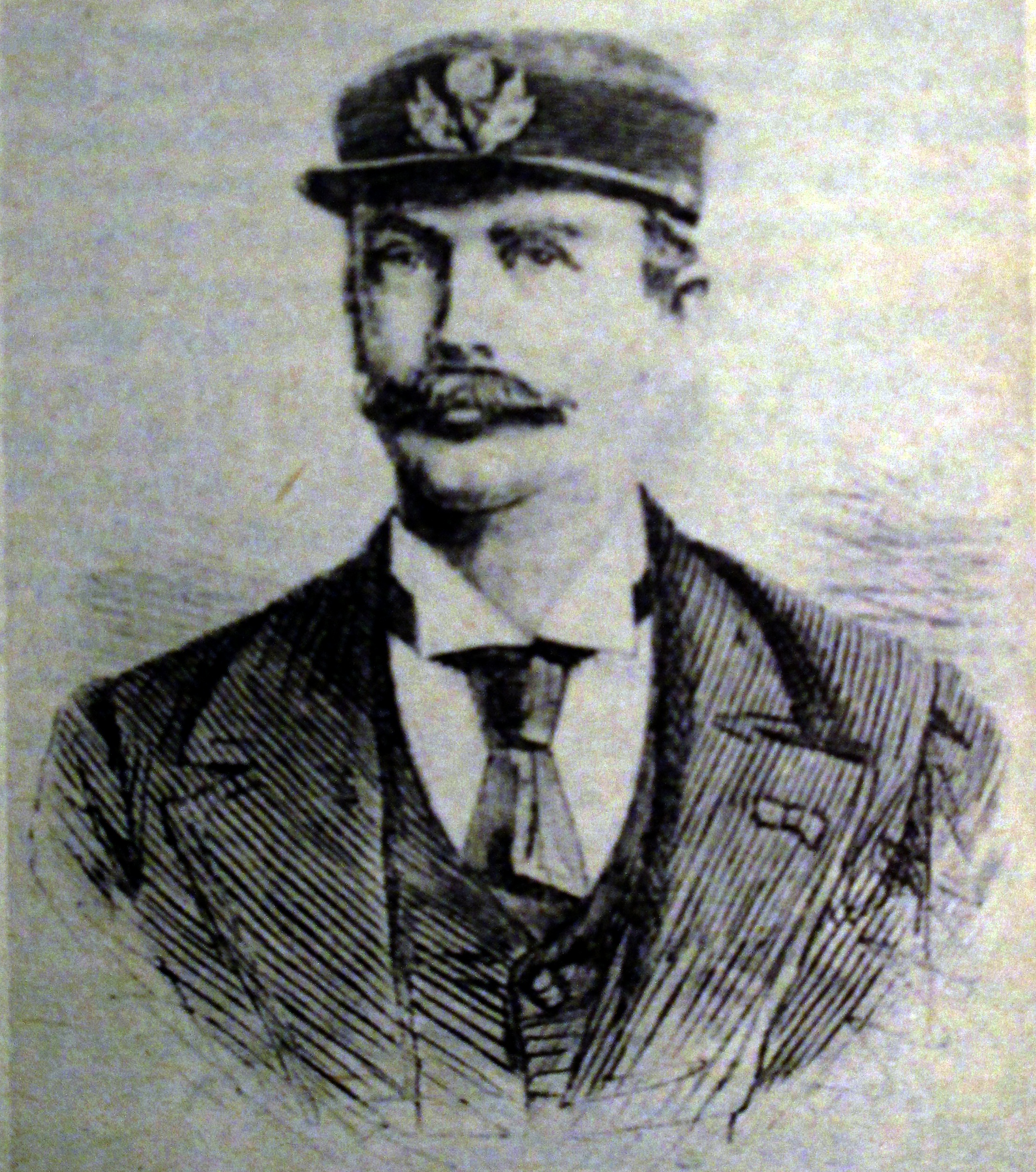 portrait of American ballooniost Charles Leroux.